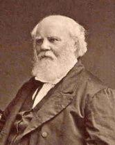 Portrait of James Phillippo